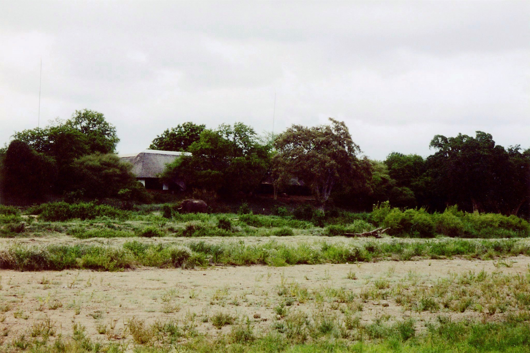 Shingwedzi camp hiding in the trees